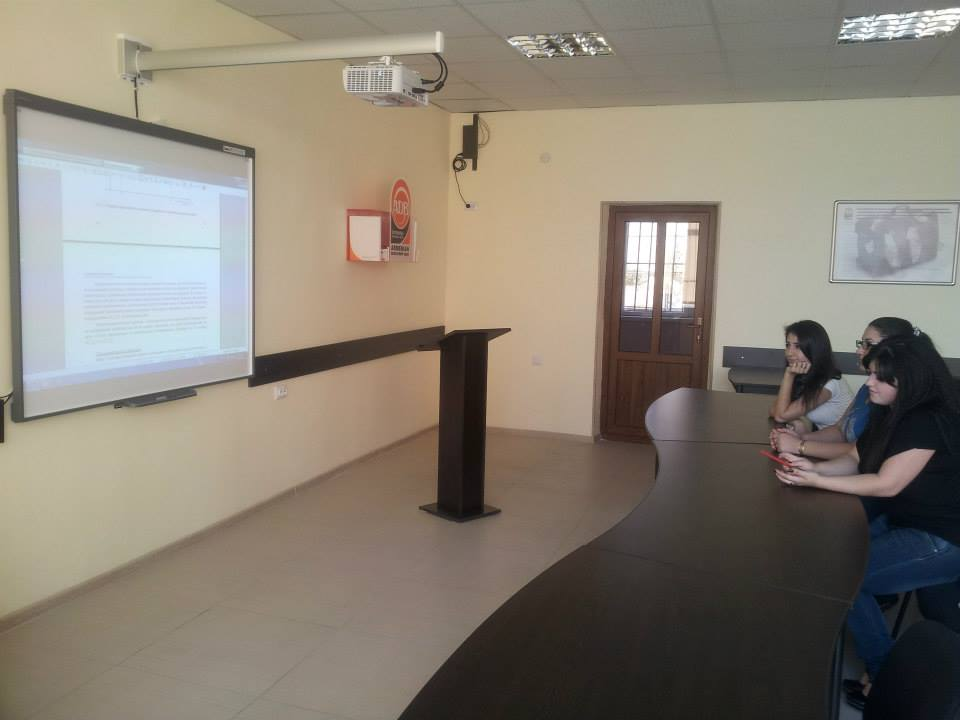 Plekhanov Russian University of Economics, Yerevan branch